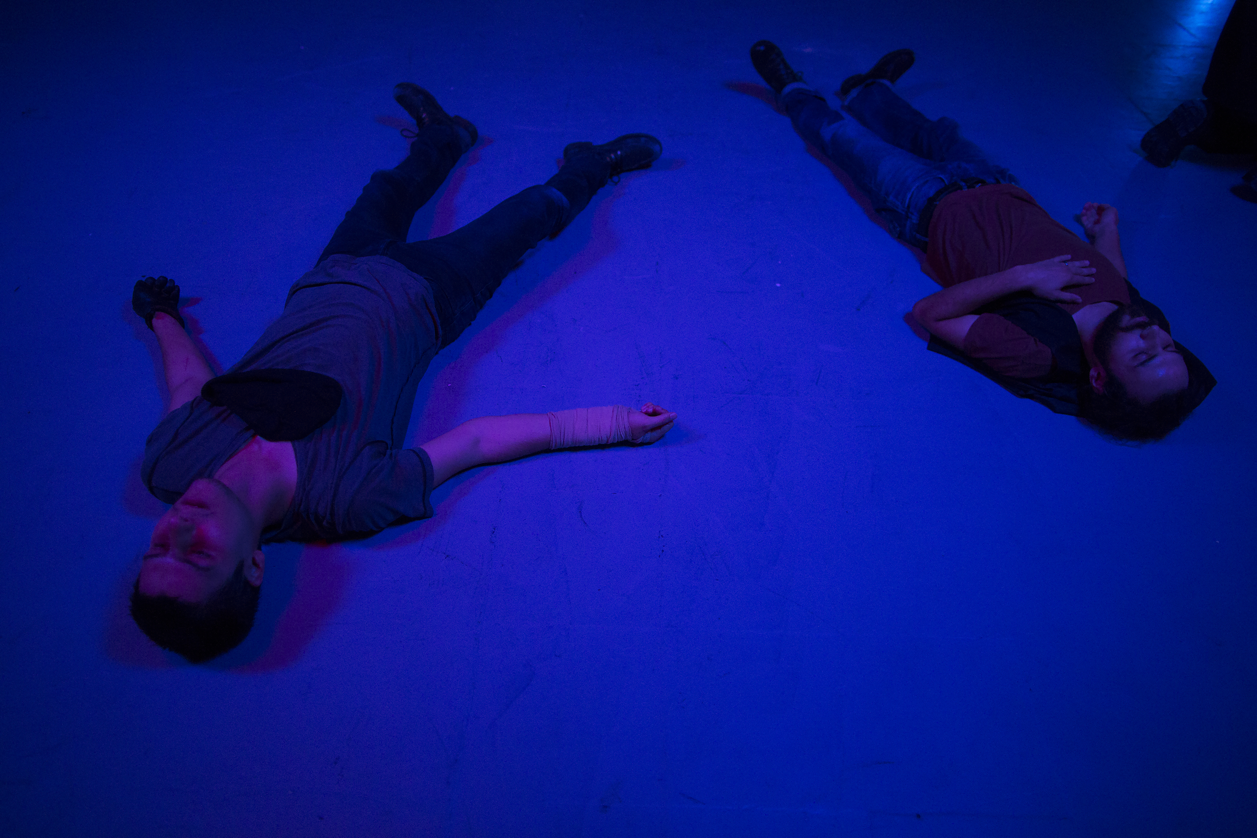 “Hamlet” is a laboratory performance and Garage Theater’s latest research into the field of dramatic performance: rewriting Shakespeare’s Hamlet. The first version of this performance was created after one year of practice and rehearsals. Hamlet had its premiere in Qom. This work is continuously being developed. Garage’s Hamlet is disturbing the tranquillity, not fearing the unseen, and coping with the fault-finding eyes of the public. “Fighting, fighting, fighting, fighting, attacking, squashing someone’s bones, breathing heavily in the smell of blood…” In a part of Shakespeare‘s play, Hamlet, regarding plays and the necessity of their existence, says: Is it not monstrous that players, but in a fiction, in a dream of passion, could force their soul so to their own conceit that from her working all their visage wann’d, tears in their eyes, distraction in their aspect, a broken voice, and their whole function suiting with forms to their conceit? And all for nothing! The players cannot keep counsel; they’ll tell all.